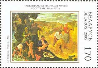 Michail Sjauruk, Stamp of Belarus